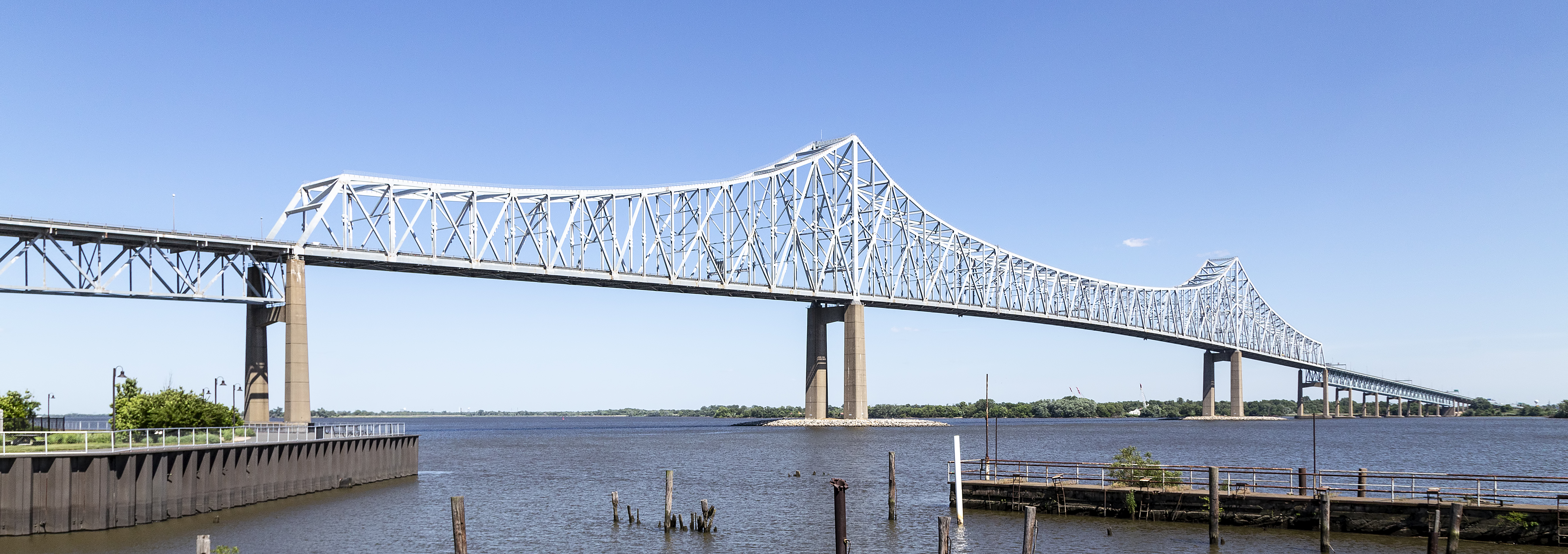 The Commodore Barry Bridge from just south of Philadelphia Union Stadium, Chester, Pennsylvania, USA